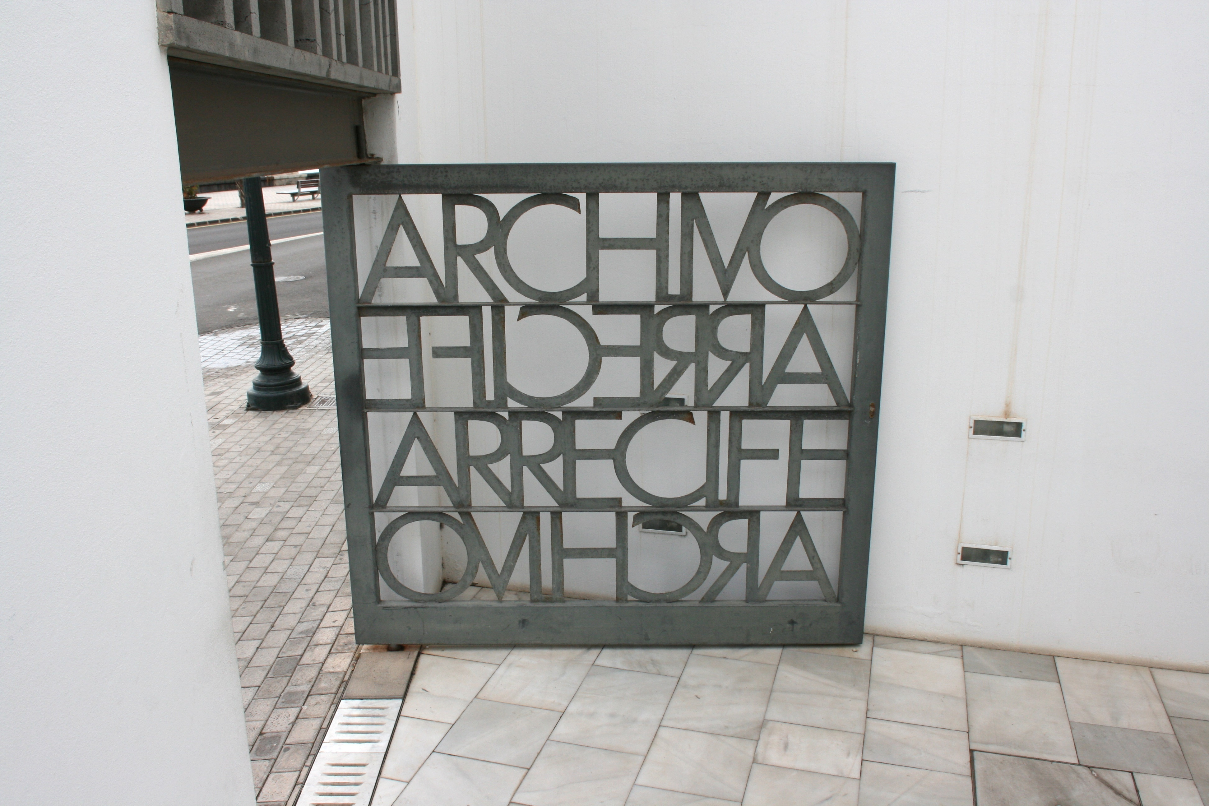 Municipality archive, Avenida Vargas in Arrecife, Lanzarote, Canary Islands